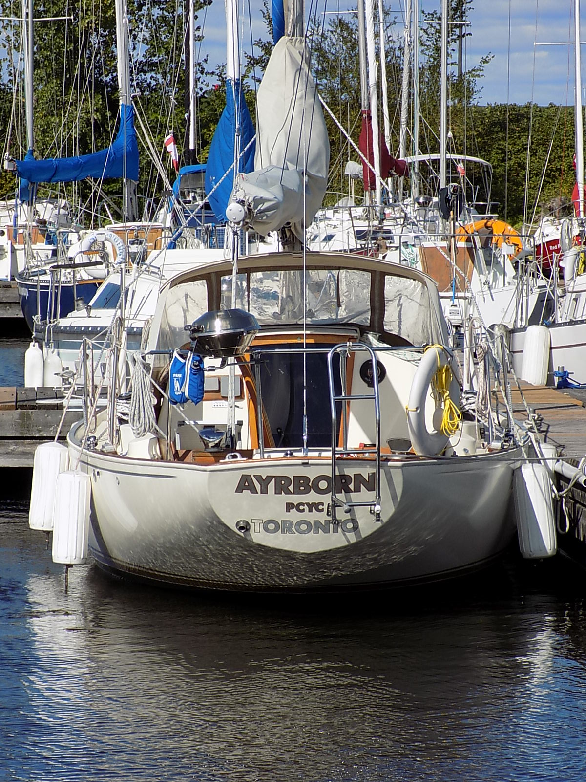 The transom view of a Redwing 30 sailboat named Ayrborn.